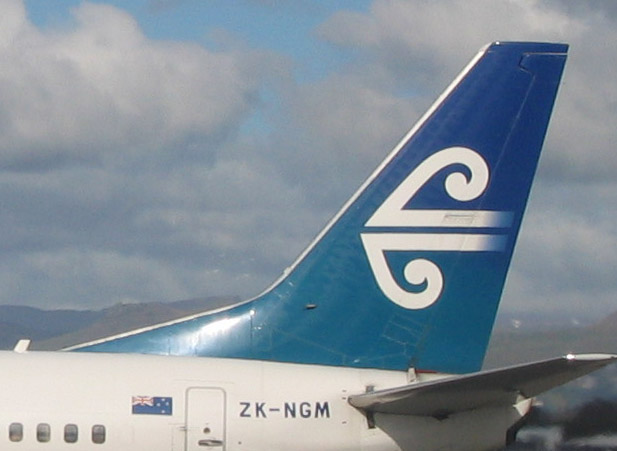 Air New Zealand's use of the Maori koru device at the tail of a Boeing 737-300 (ZK-NGM)